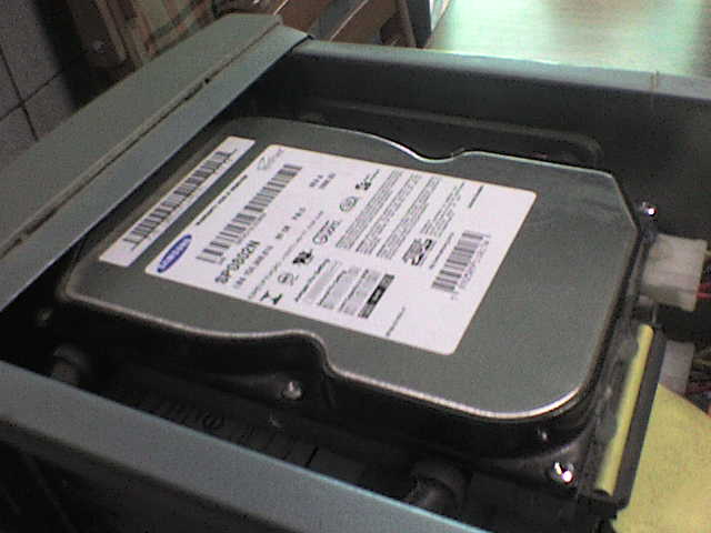 Hard Disk